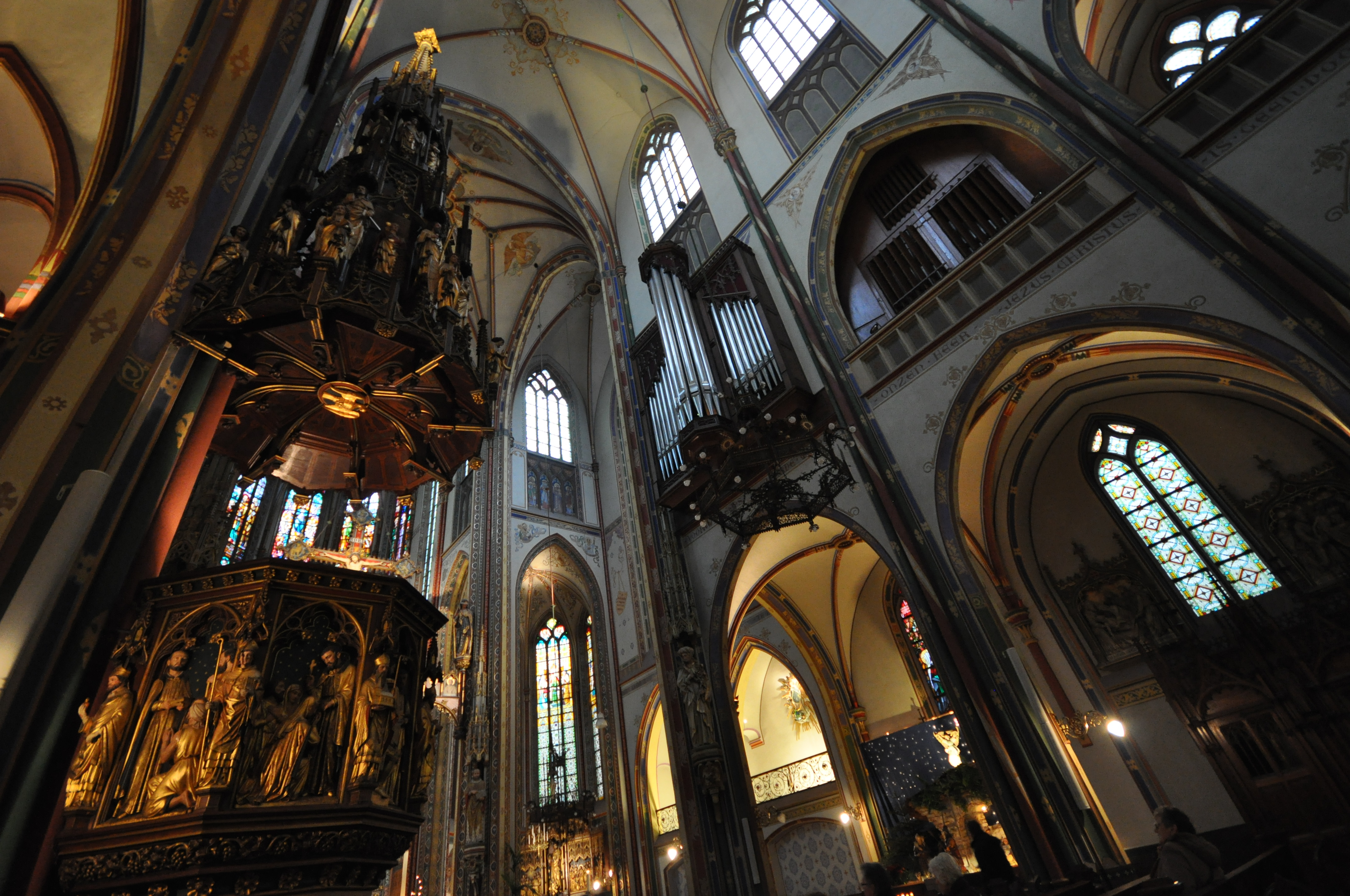 De Krijtberg is a Roman Catholic church in Amsterdam, located at the Singel. The church was designed by Alfred Tepe and was opened in 1883. The church is dedicated to St Francis Xavier and is one of the rectoraants within the Roman Catholic parish of St Nicholas, and is recognised by its two pointed towers. Since 1654 it has been a Jesuit church and services there are in a variety of styles